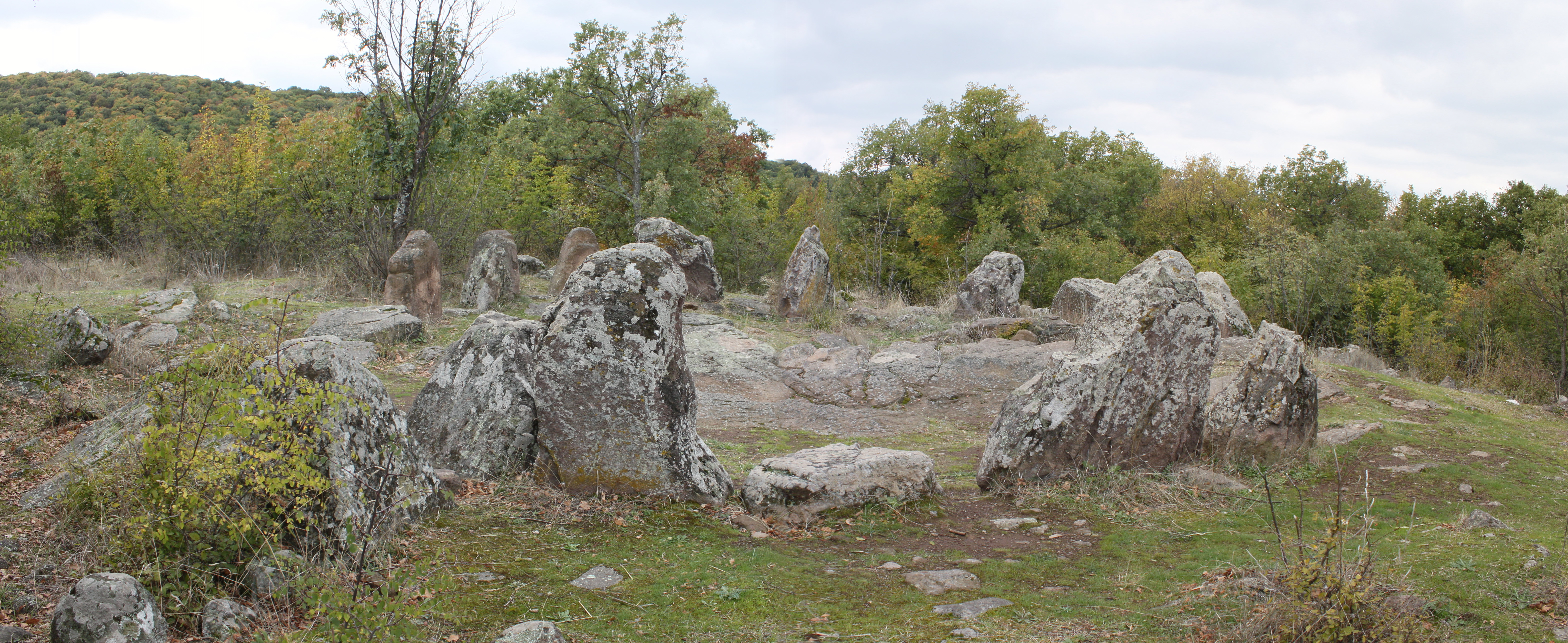 Cromlech near village Dolni glavanak, Haskovo District, Bulgaria